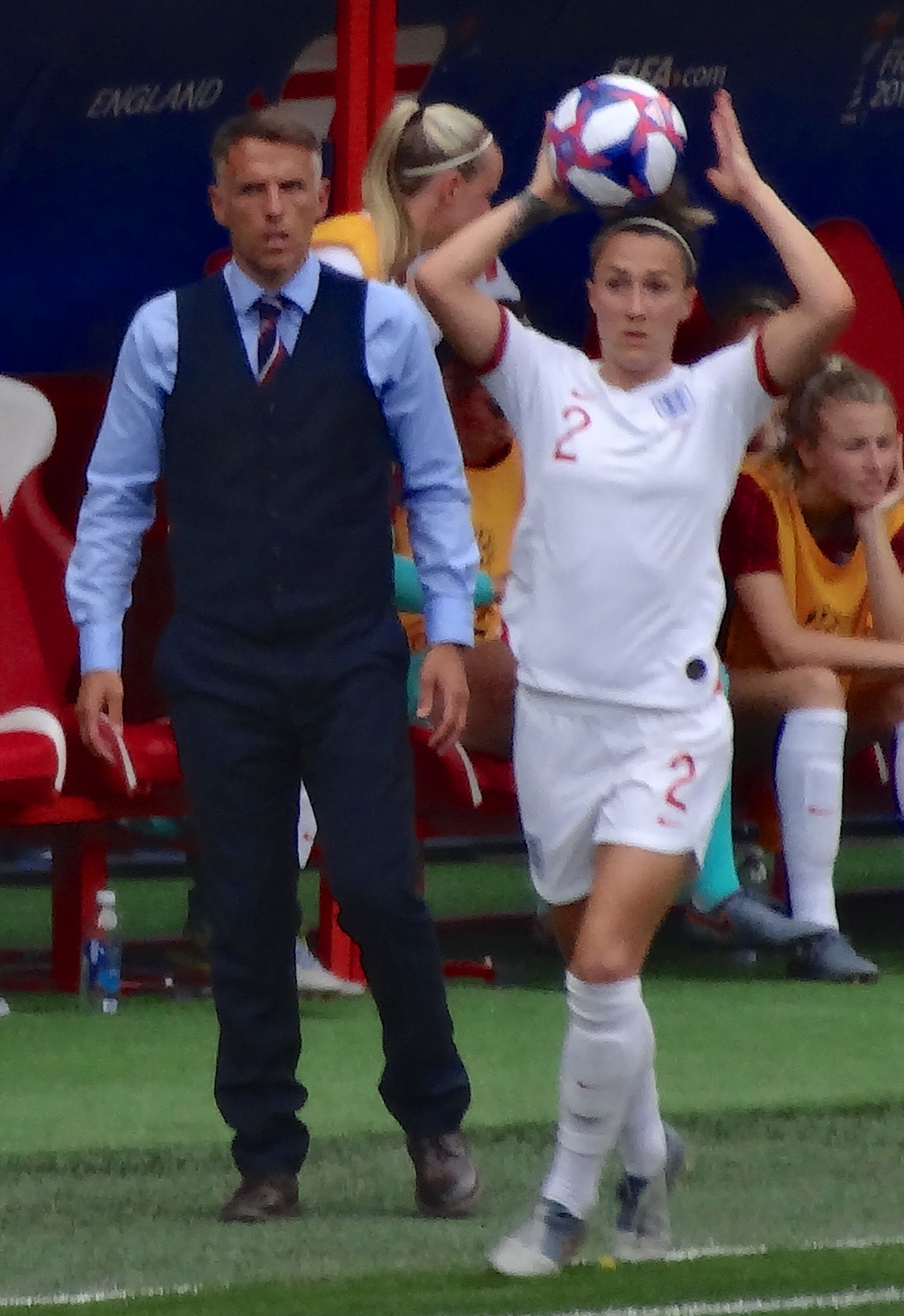 Phil Neville & Lucy Bronze (Women's World Cup 2019)